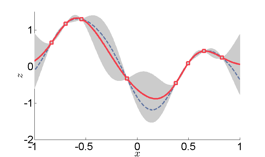 Example of one-dimensional data interpolation by kriging, with confidence intervals. Squares indicate the input data. The kriging interpolation, shown in red, runs along the means of the normally distributed confidence intervals shown in gray. The dashed curve is a smooth spline, which departs significantly from the kriging values.